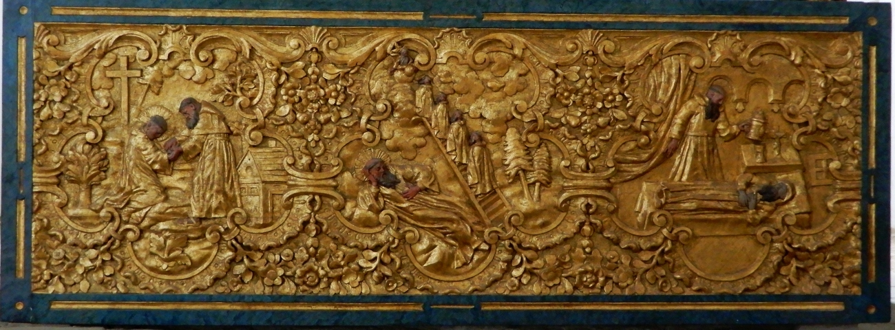 Saint Anthony the Greatt, antependium, round 1740, Červený Kláštor Monastery, Slovakia